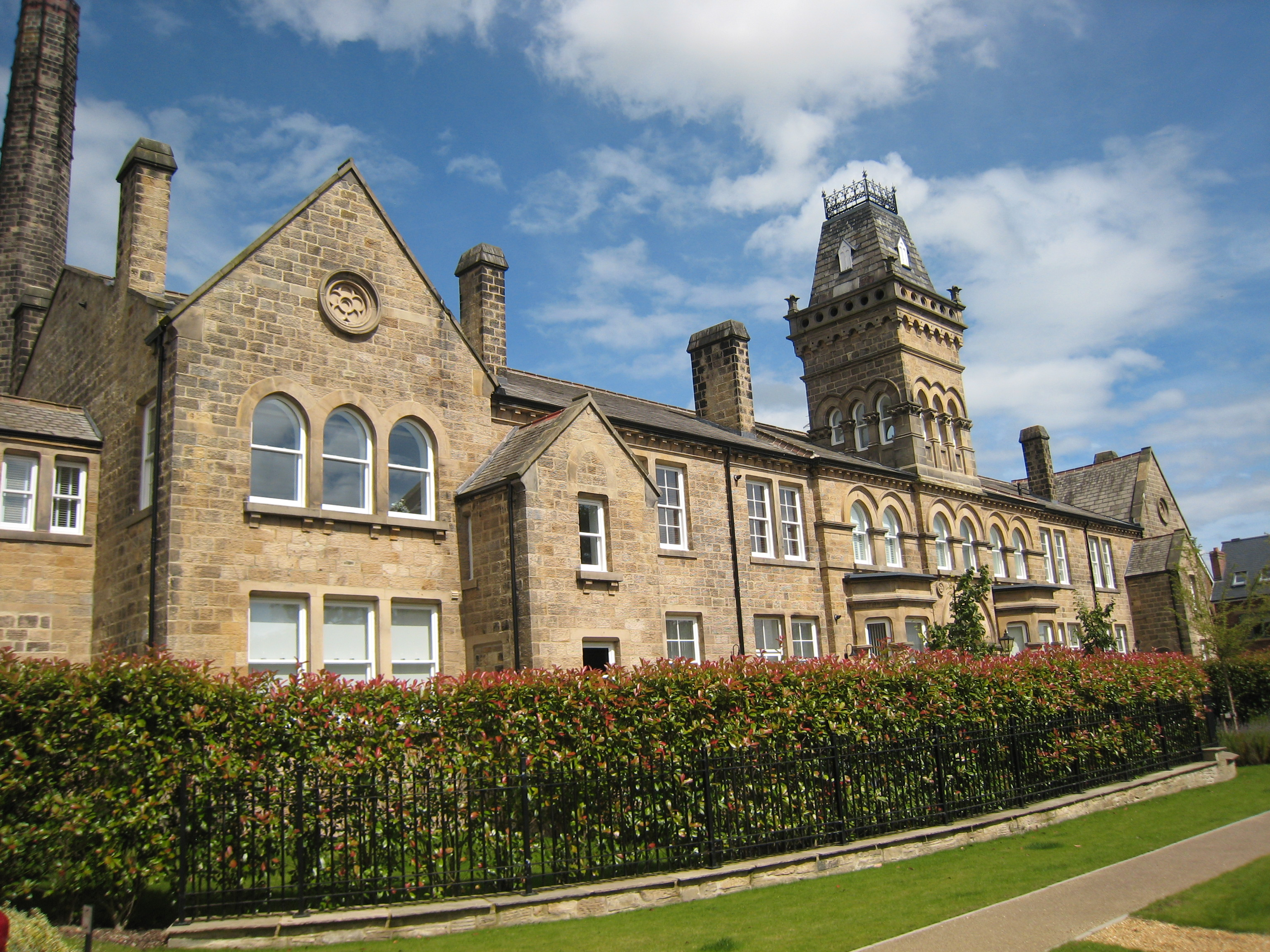 Former Wharfedale Hospital, now converted to flats.